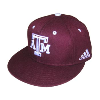 Baseball Cap